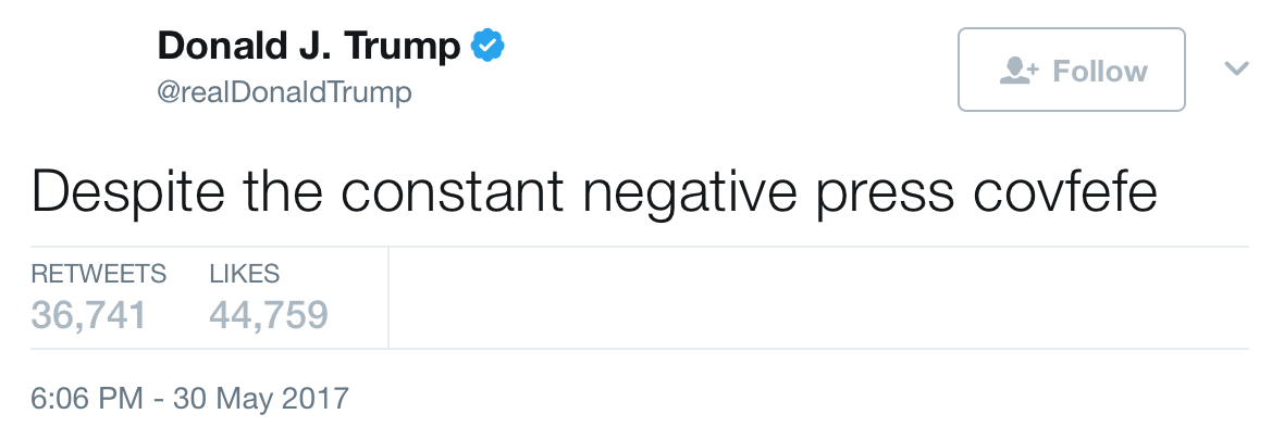 Donald tweets, "Despite the constant negative press covfefe"